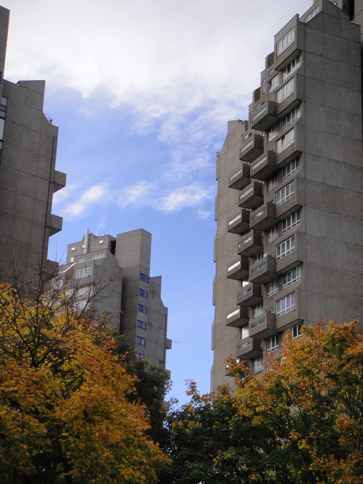 The cluster of towers.